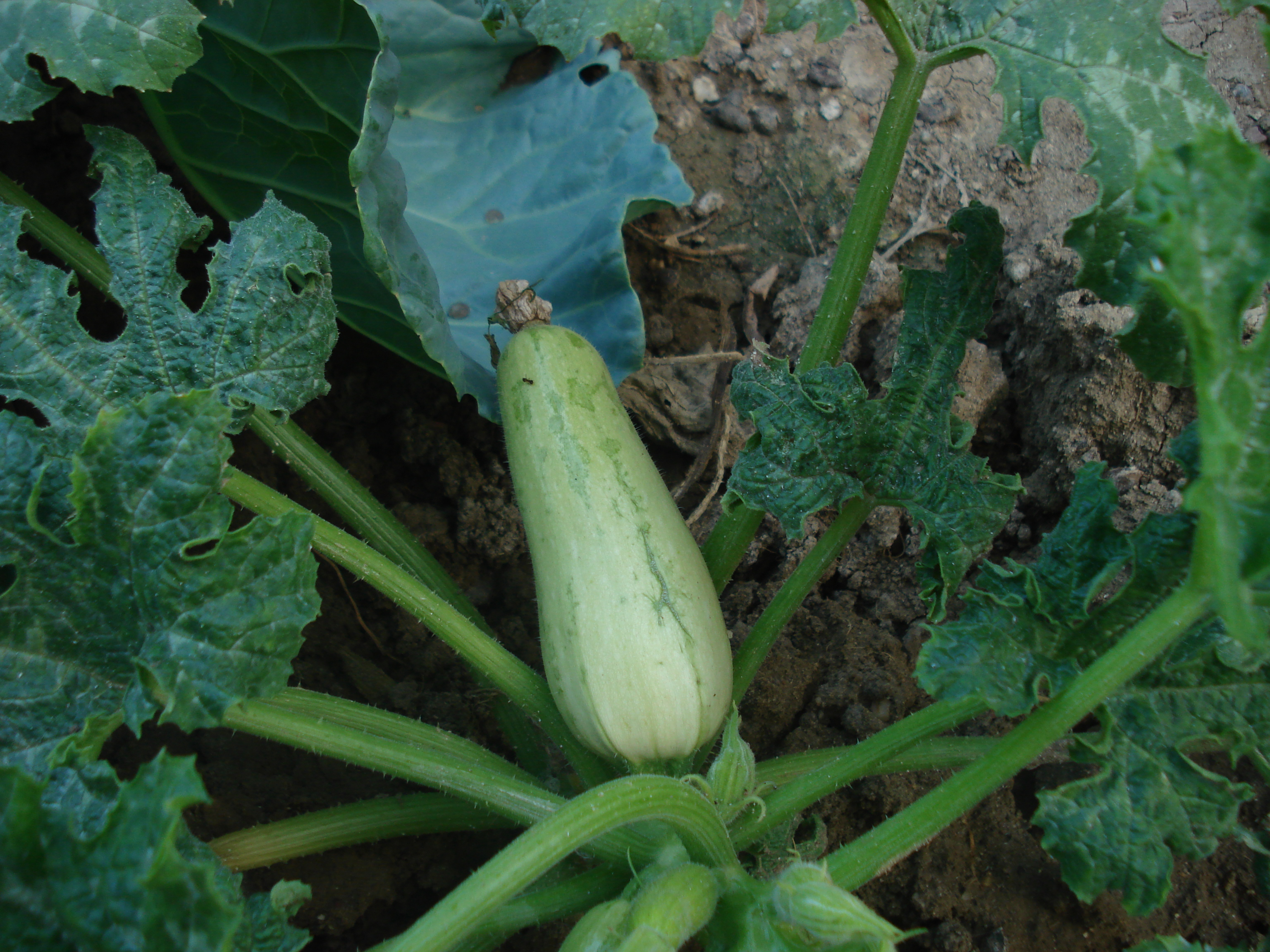 A kind of cucurbita from Turkey